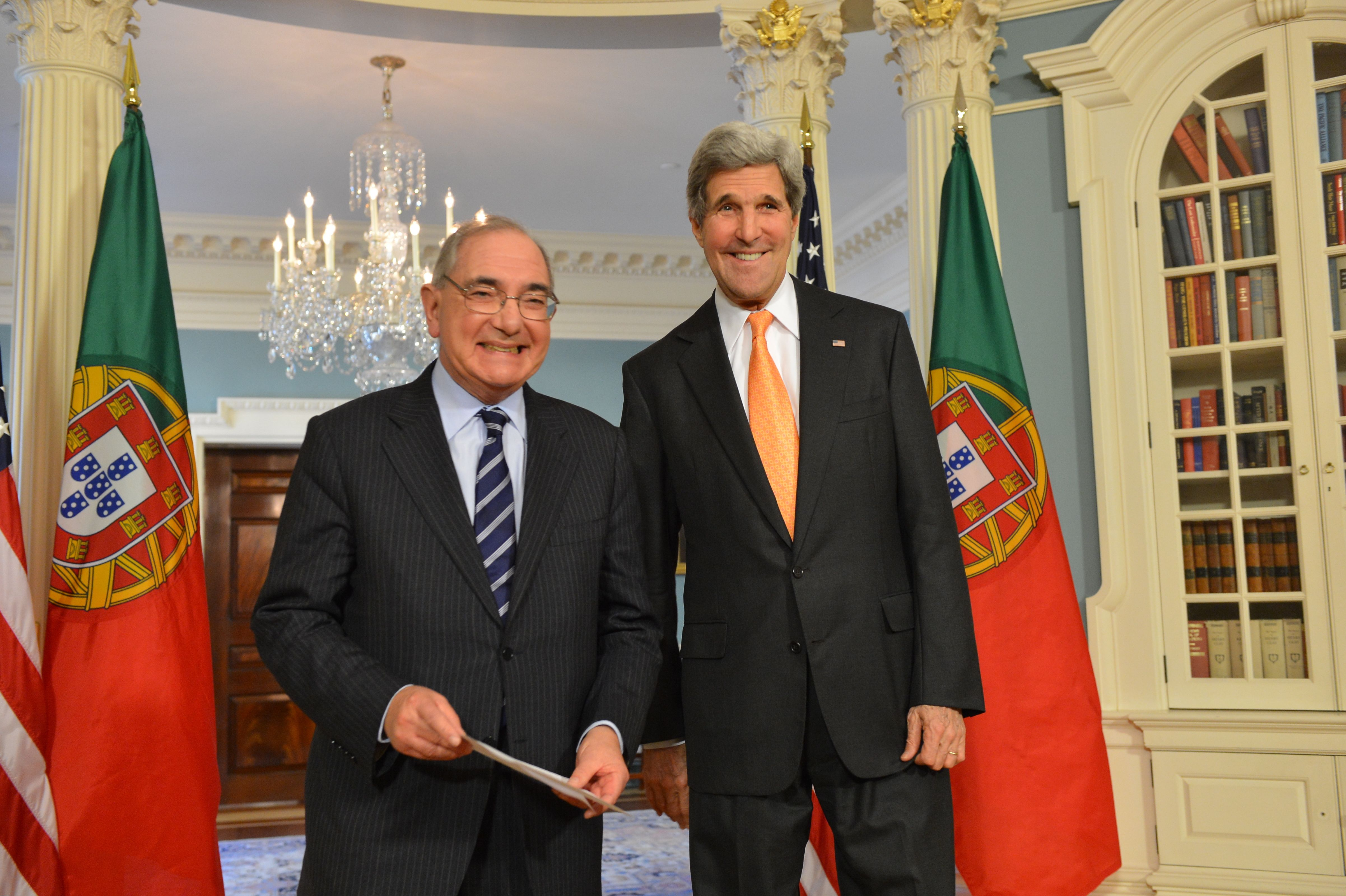 U.S. Secretary of State John Kerry and Portuguese Foreign Minister Rui Machete address reporters before their bilateral meeting at the U.S. Department of State in Washington, D.C., on January 29, 2014. [State Department photo/ Public Domain]